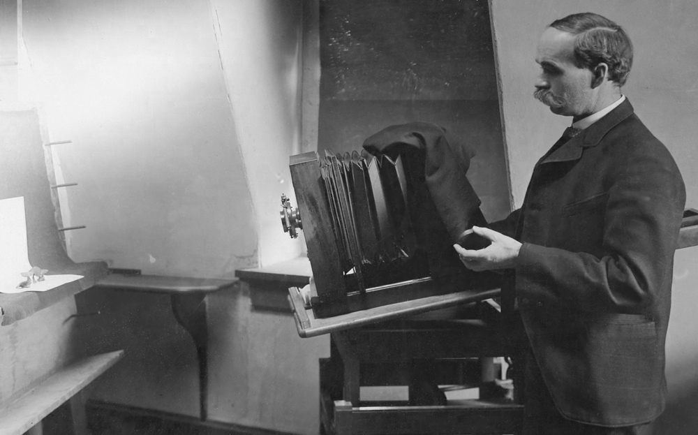 Photo of George F. Atkinson using a camera to photograph mushrooms at Cornell University. File # CUP-A-036597. Mr. Atkinson died in 1918, photo taken before then.